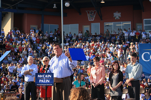 Tom Ridge at a McCain/Palin rally in Washington, Pennsylvania on August 30, 2008